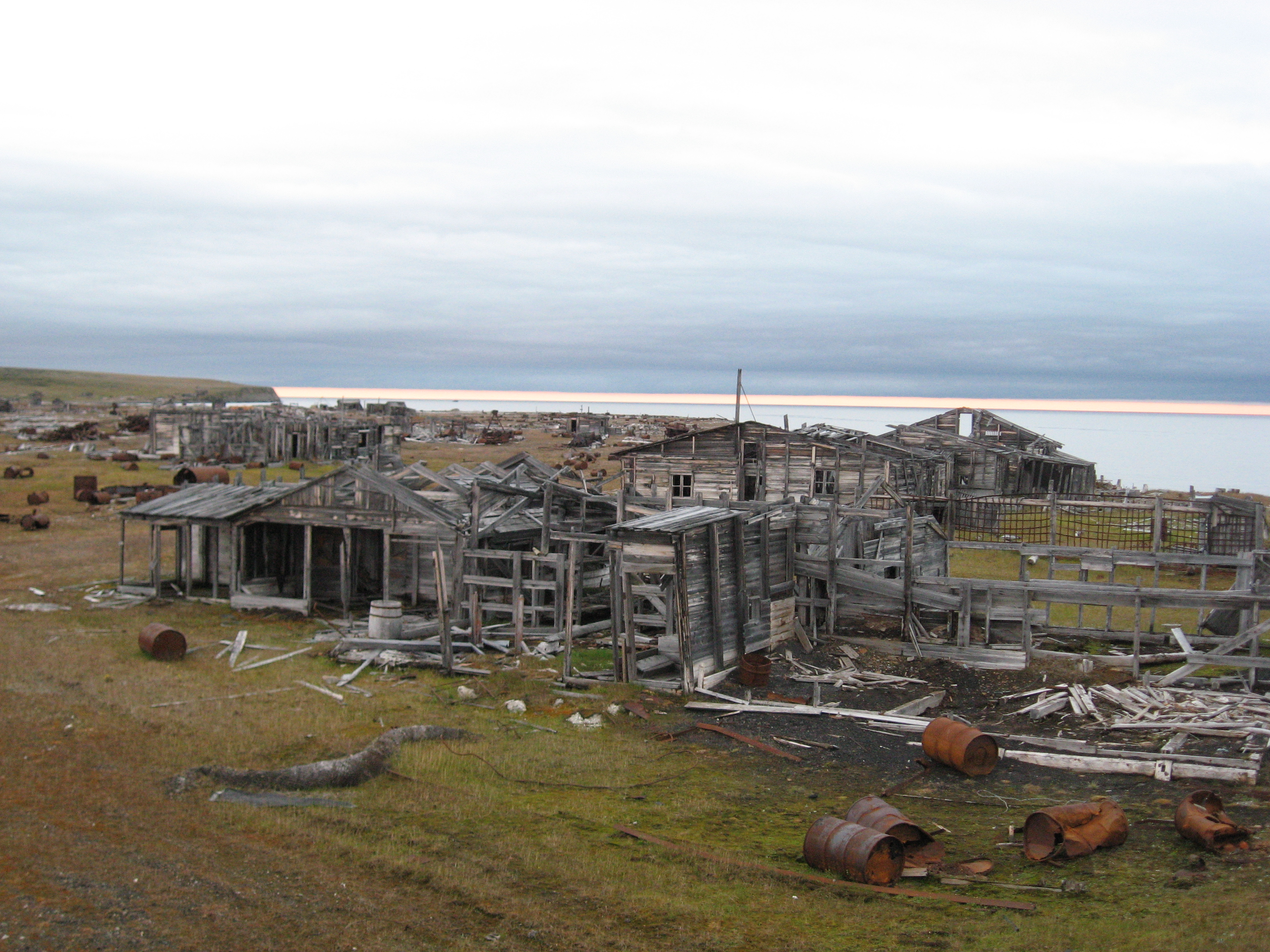 Abandoned settlement of Nordvik